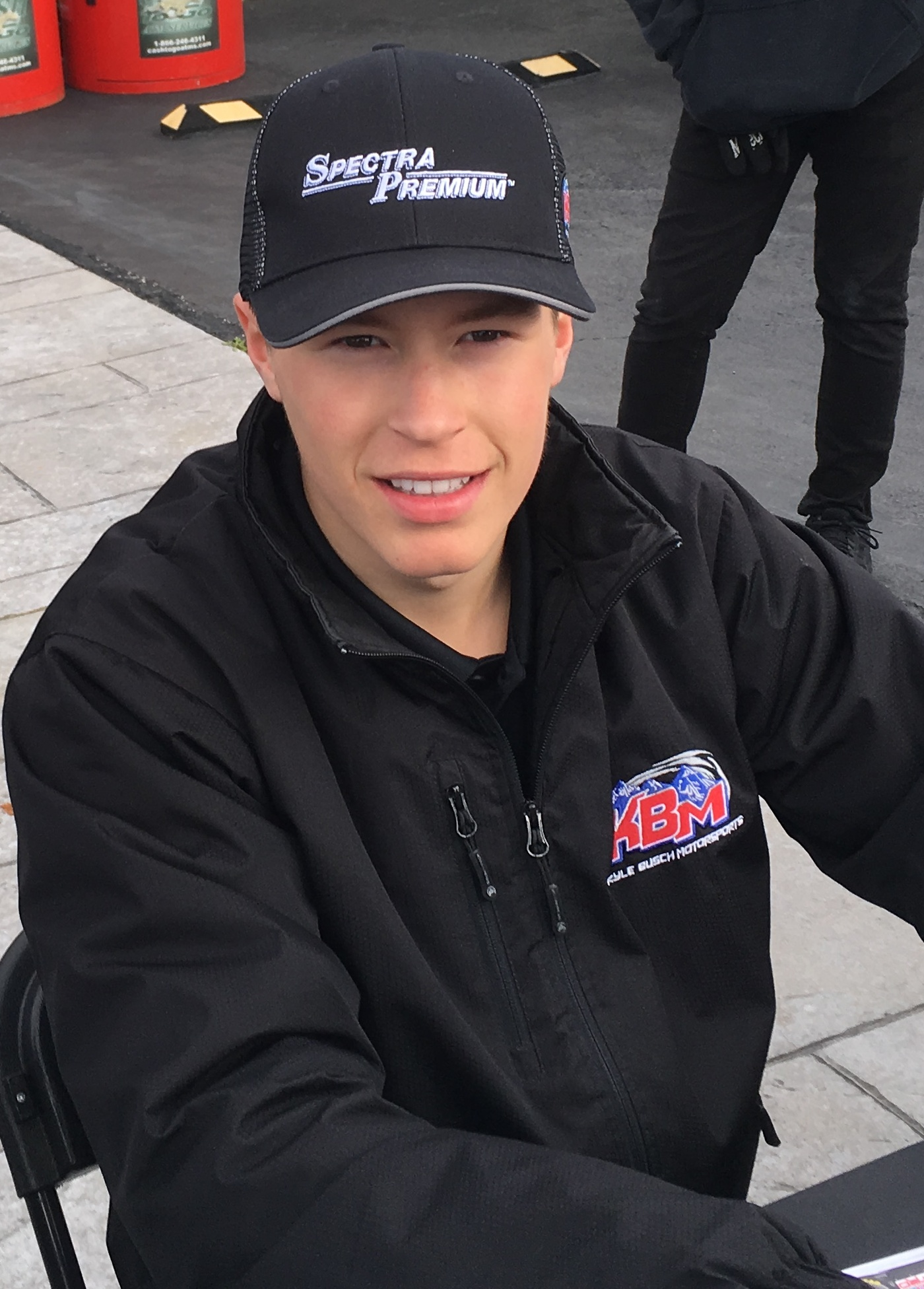 Raphael Lessard, driver of the #46 truck for Kyle Busch Motorsports, at an autograph session at Martinsville Speedway.